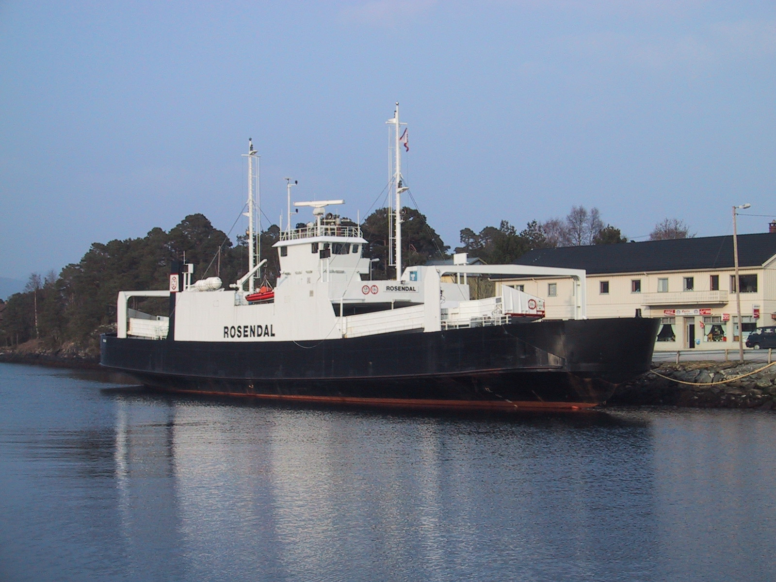 M/F Rosendal, built 1975. At Gjermundshavn ferry harbour in Kvinnherad, Norway.